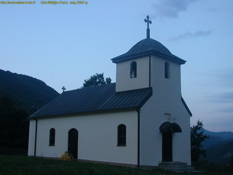 Church of the village of Komadine, Serbia/L'église du village de Komadine, Serbie